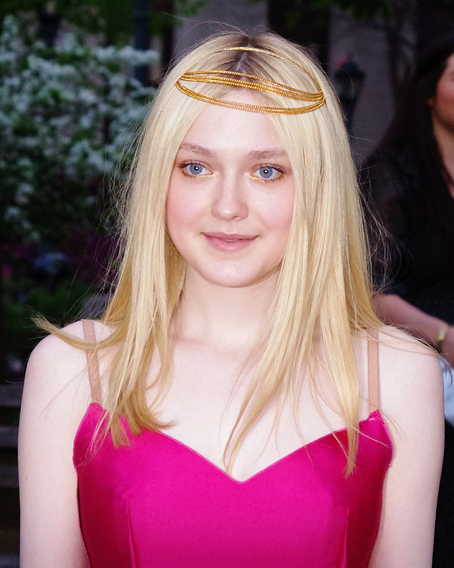 Dakota Fanning at the Vanity Fair party for the 2012 Tribeca Film Festival.